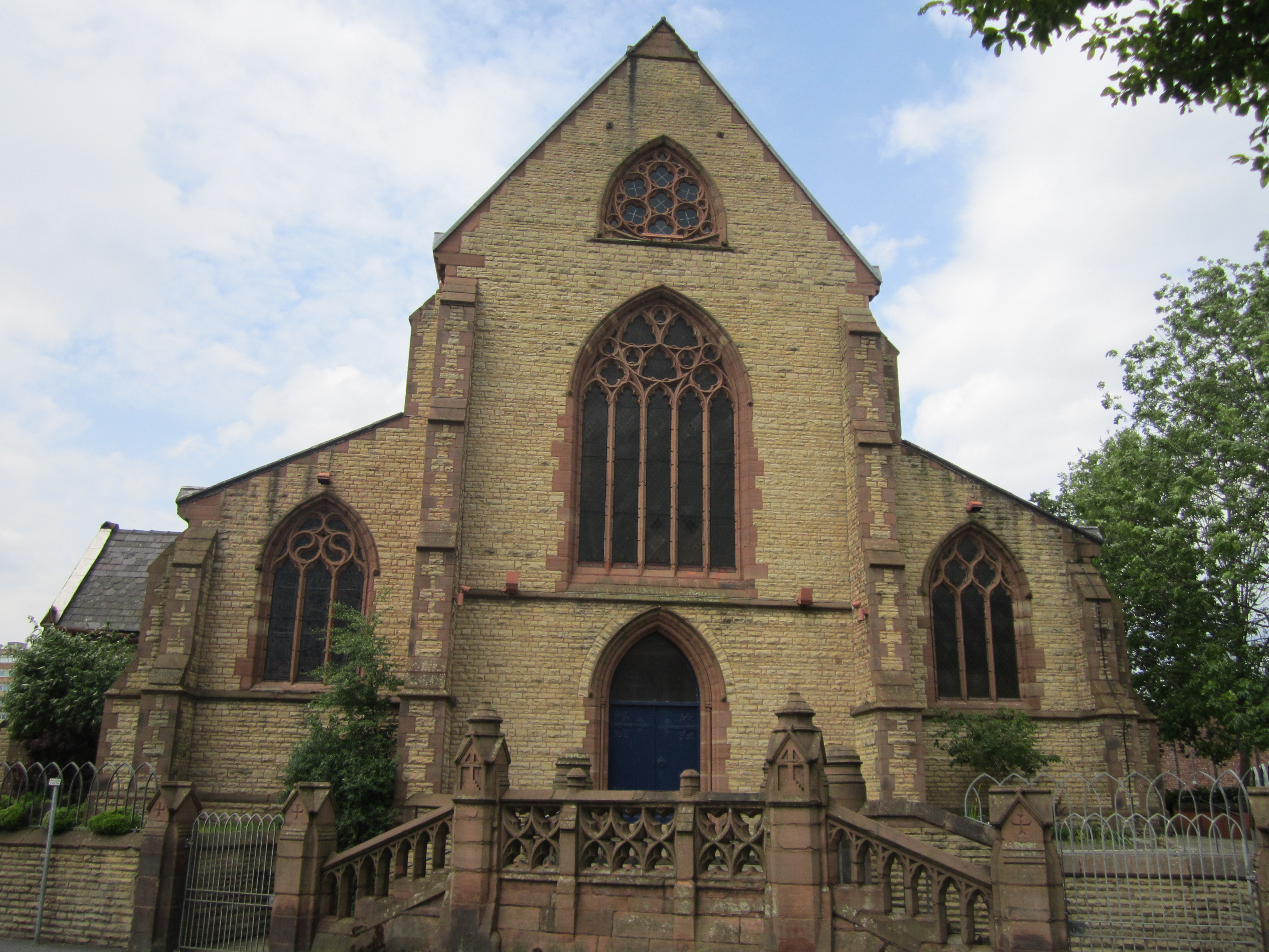 Holy Cross and St Helen Church, St Helens, Merseyside, England. Viewed from Hall Street.